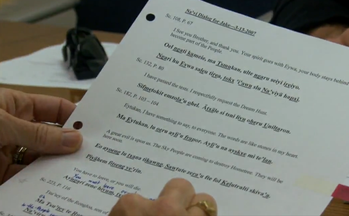 Studying the dialogs in Na’vi